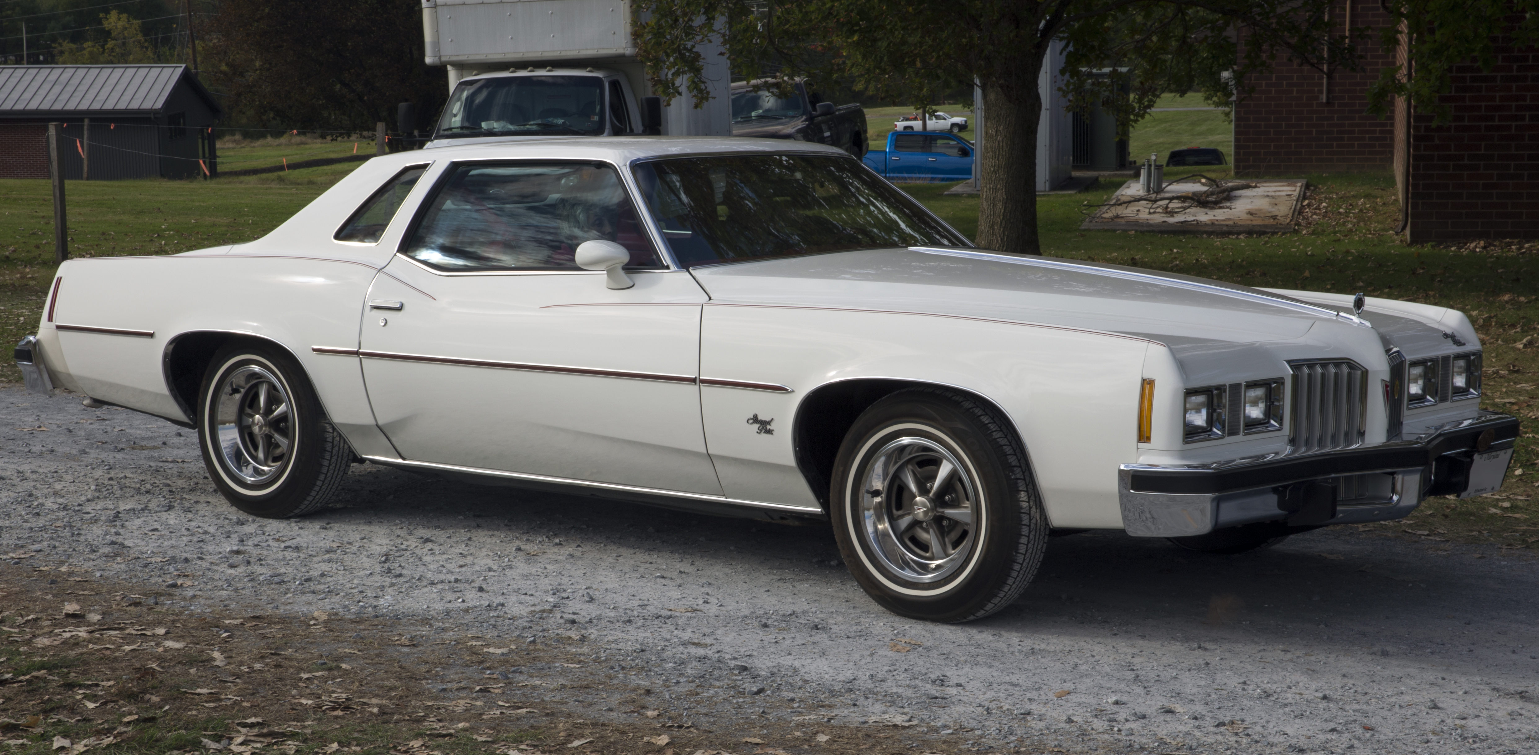 A 1977 Pontiac Grand Prix leaving the show area at Hershey 2019.